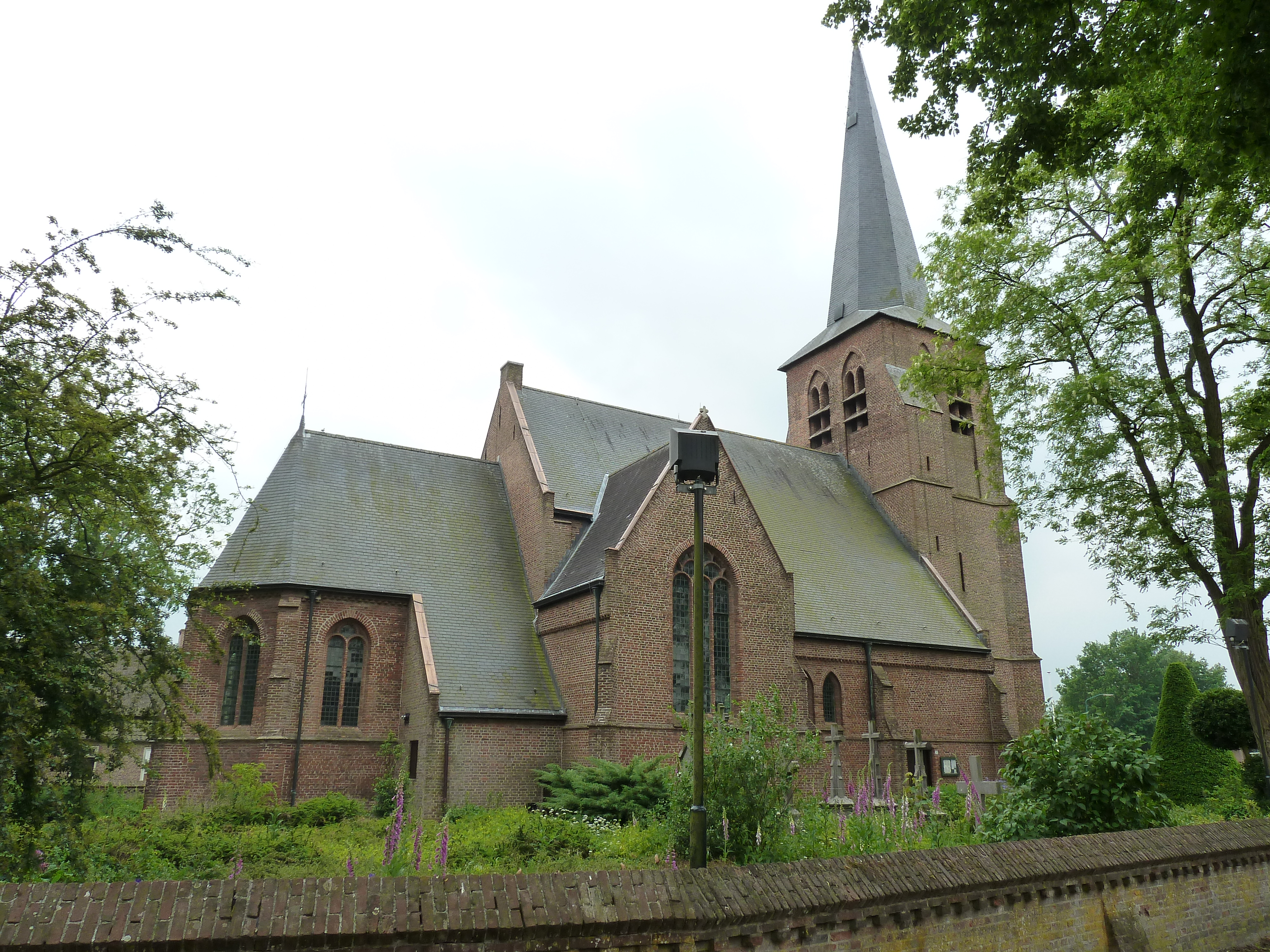 The old church Sint-Willibrorduskerk, Middelbeers, the Netherlands